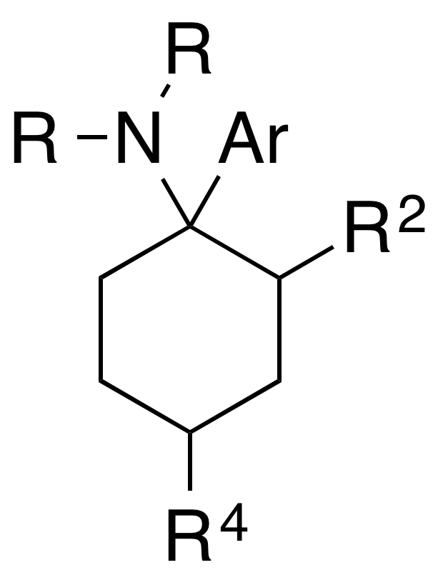 General skeletal structure of arylcyclohexylamines